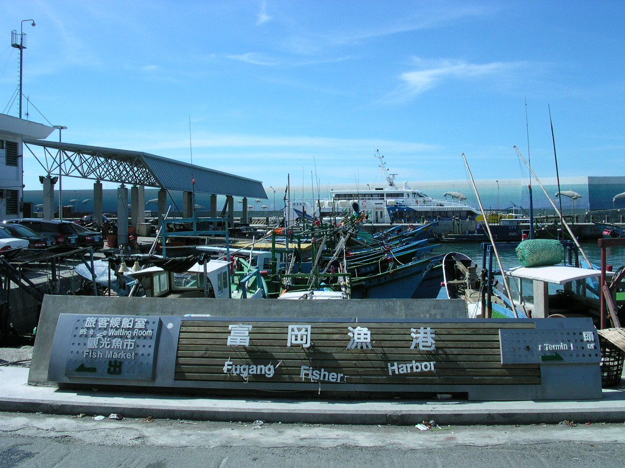 Fugang Fishery Harbor, Taitung City, Taitung County, Taiwan